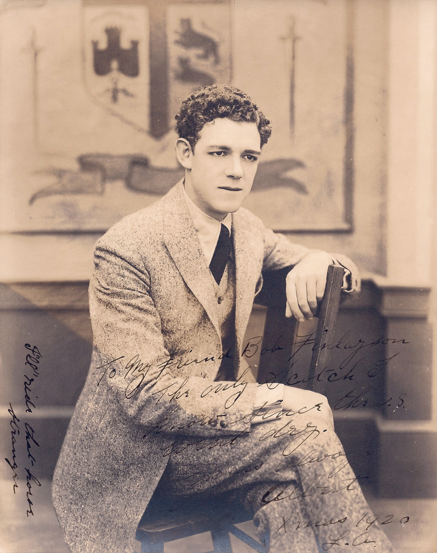 Albert Austin Photo Inscribed Photo To Friend